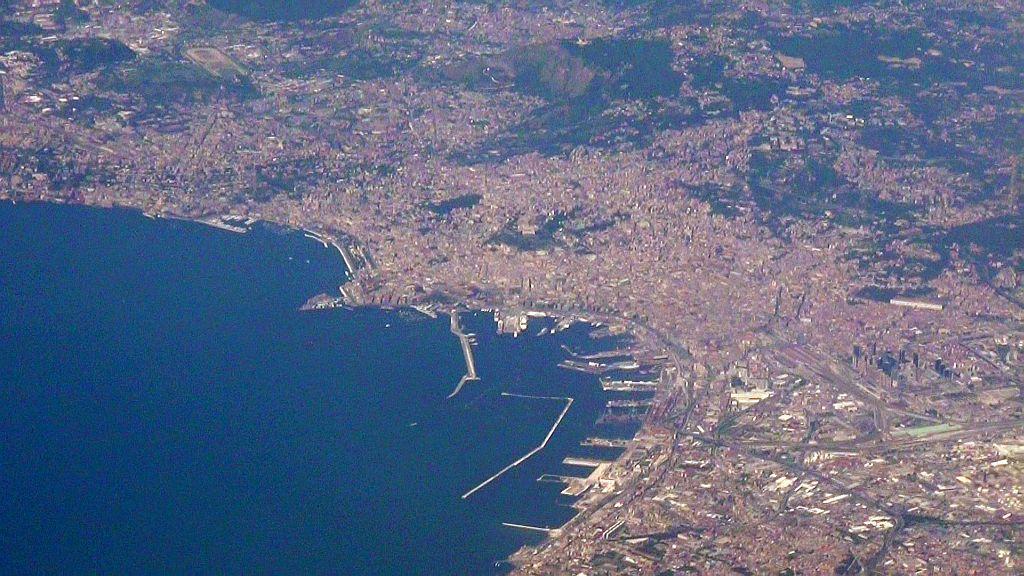 Bird's eye view of Napoli, Italy